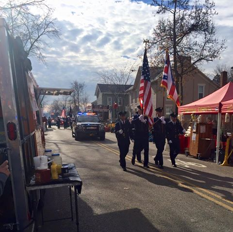 The Christmas in Springboro parade (November 2015)